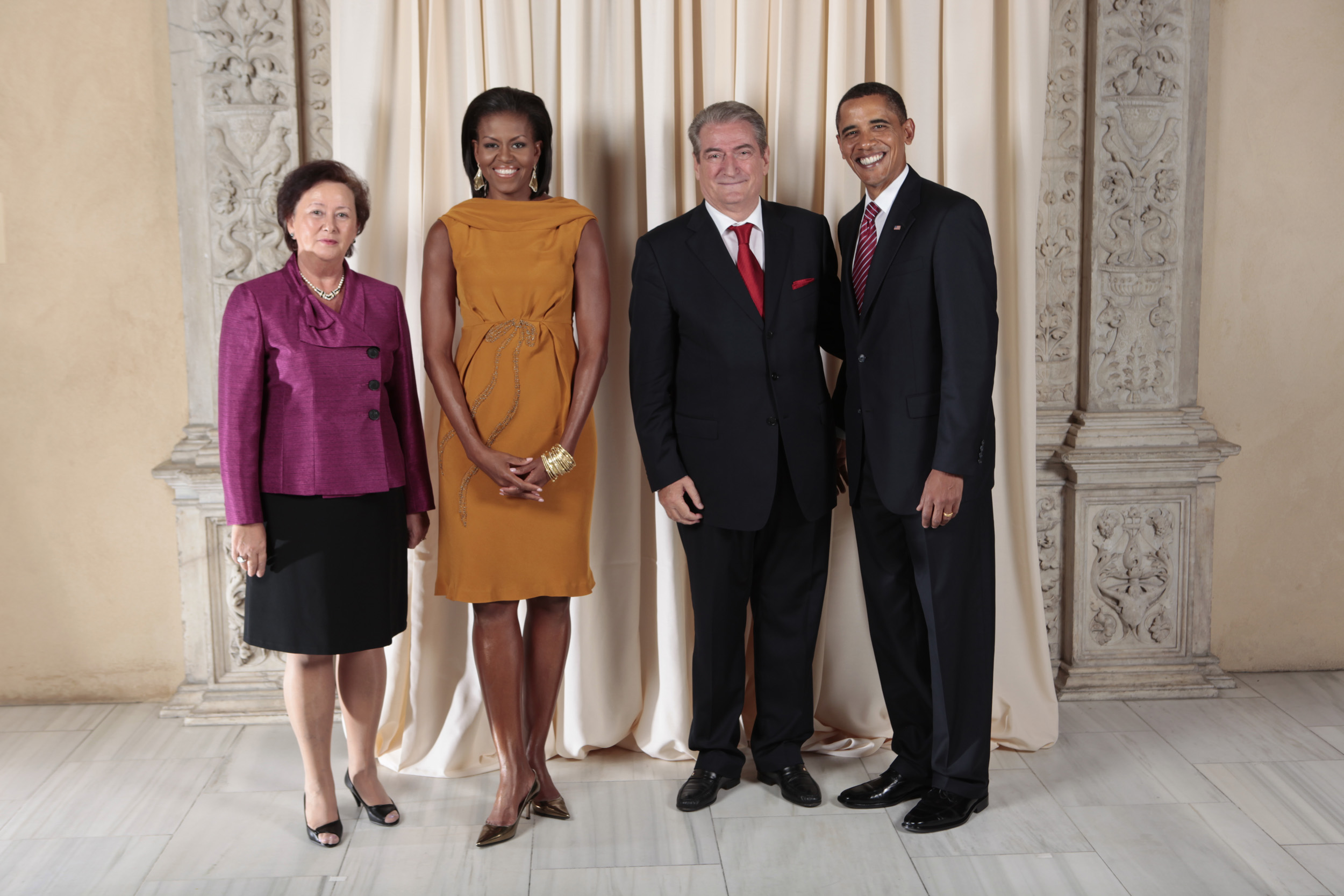 President Barack Obama and First Lady Michelle Obama pose for a photo during a reception at the Metropolitan Museum in New York with Sali Berisha, Prime Minister of Albania, and his wife, H.E. Dr. Liri Berisha.